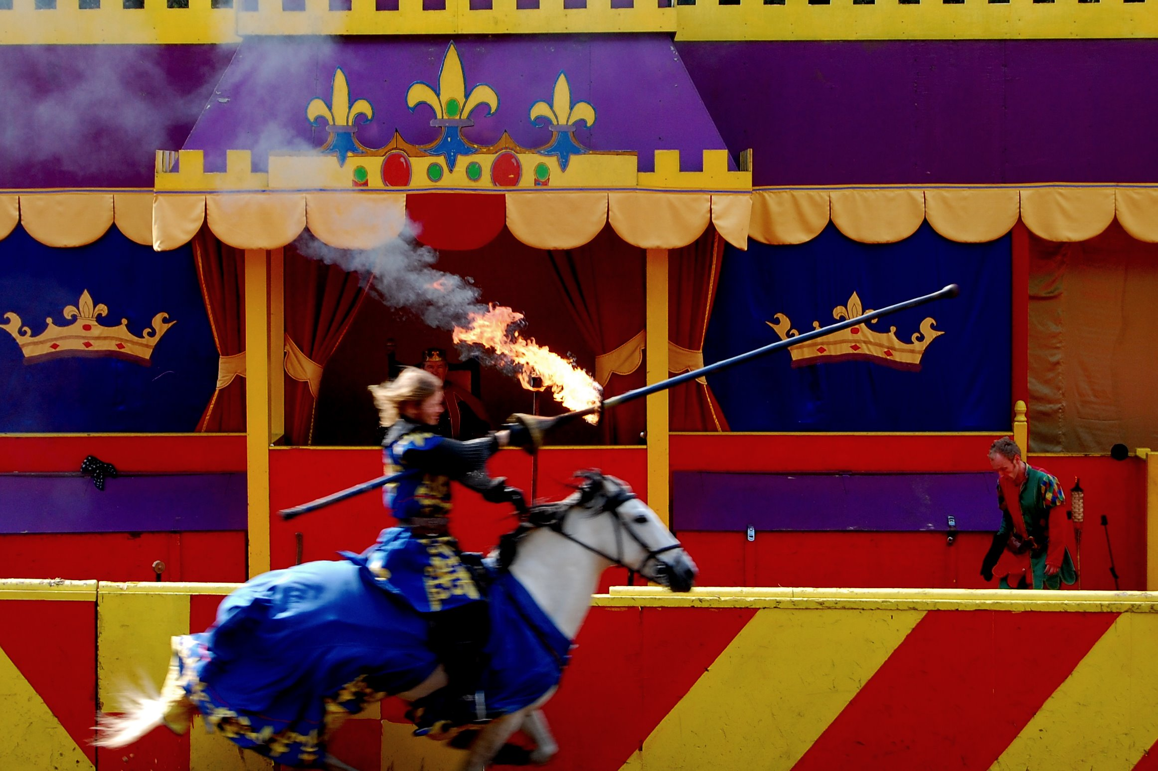 Jousting reenactment at Camelot Theme Park